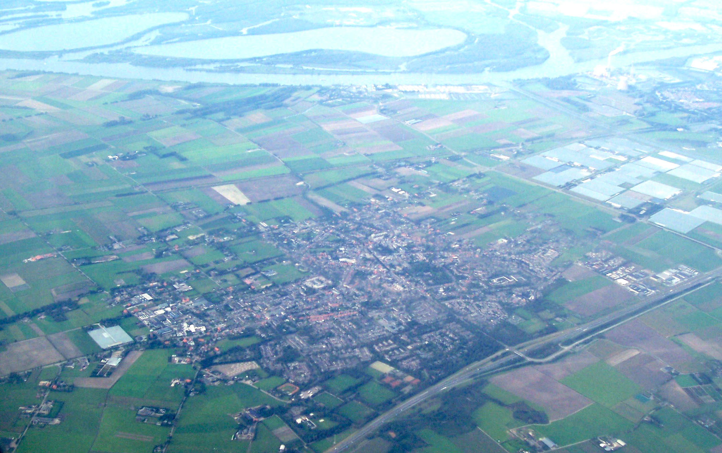 Categorie:Luchtfoto (Original text: “Luchfoto van Made”)